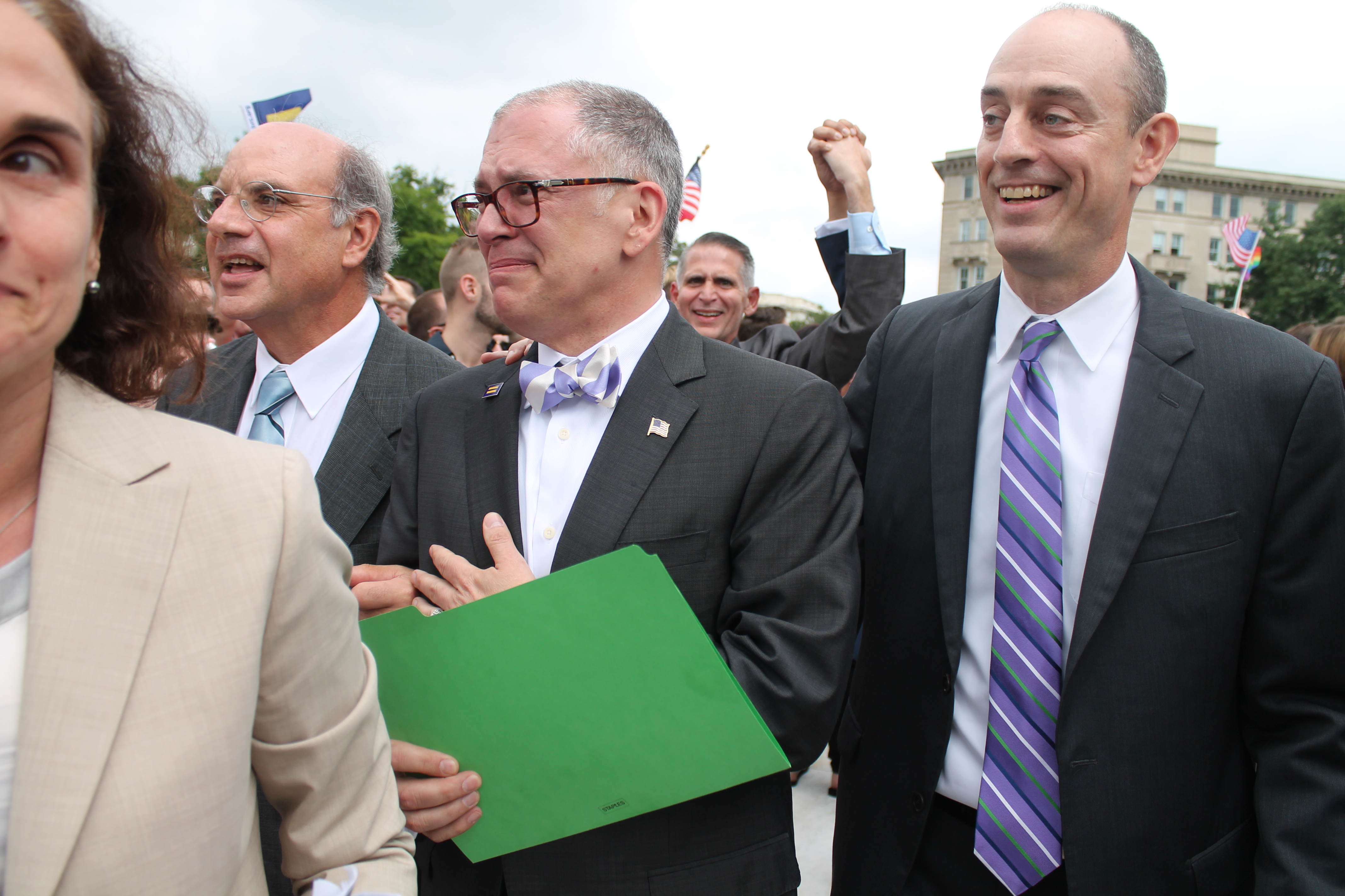 MARRIAGE EQUALITY DECISION DAY RALLY in front of the US Supreme Court on First Street between East Capitol Street and Maryland Avenue, NE, Washington DC on Friday morning, 26 June 2015 by Elvert Barnes Protest Photography Marriage Equality / USA Learn more about the SCOTUS Obergefell v. Hodges case on Wikipedia at Visit Elvert Barnes MARRIAGE EQUALITY same-sex civil unions ongoing project at